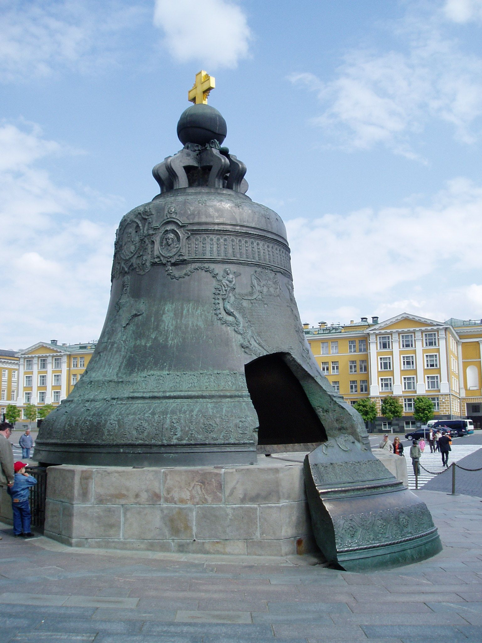 Tsar Bell, Moscow (Kremlin)